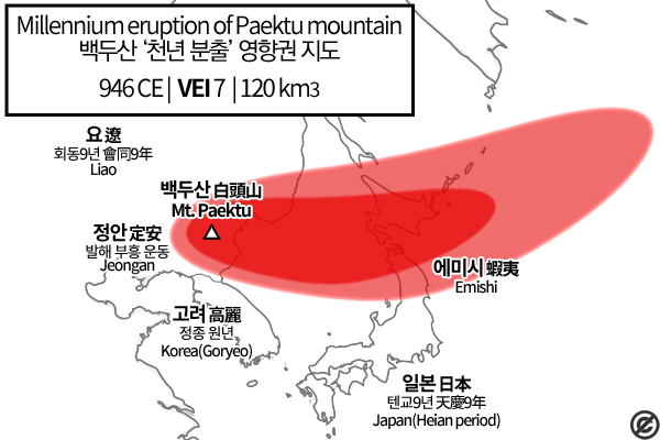 map of en:946 eruption of Paektu Mountain